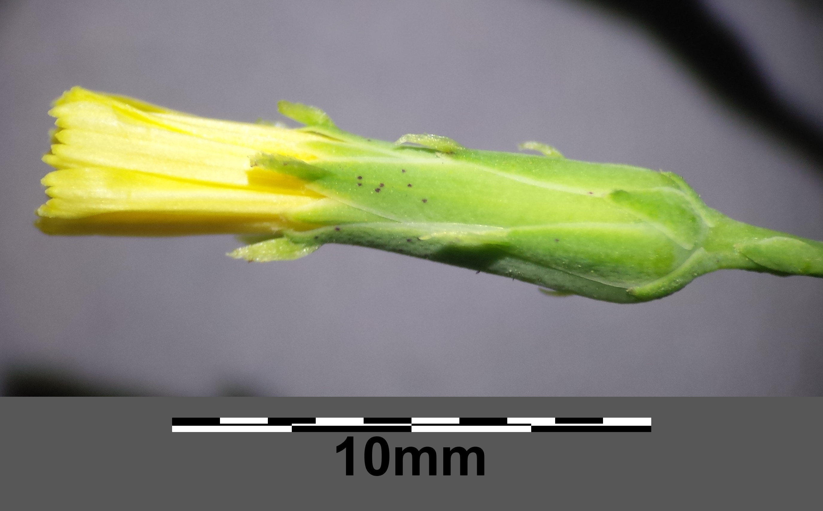 Capitulum Taxonym: Lactuca quercina ss Fischer et al. EfÖLS 2008 ISBN 978-3-85474-187-9 Location: Donauauen near Mühlleiten, district Gänserndorf, Lower Austria - ca. 150 m a.s.l. Habitat: border of a wood